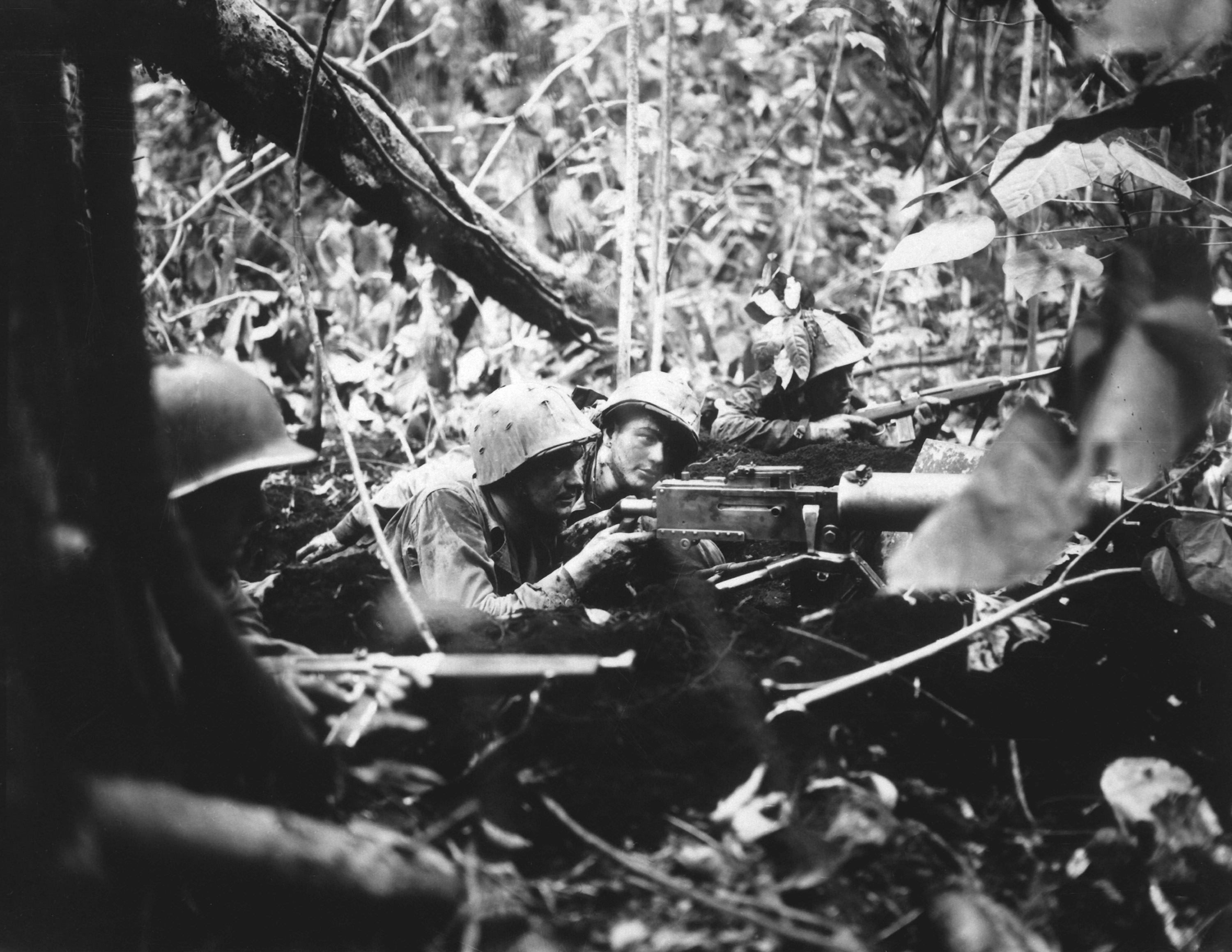 Retreating at first into the jungle of Cape Gloucester, Japanese soldiers finally gathered strength and counterattacked their Marine pursuers. These machine gunners pushed them back. (National Archives Identifier: 532522)